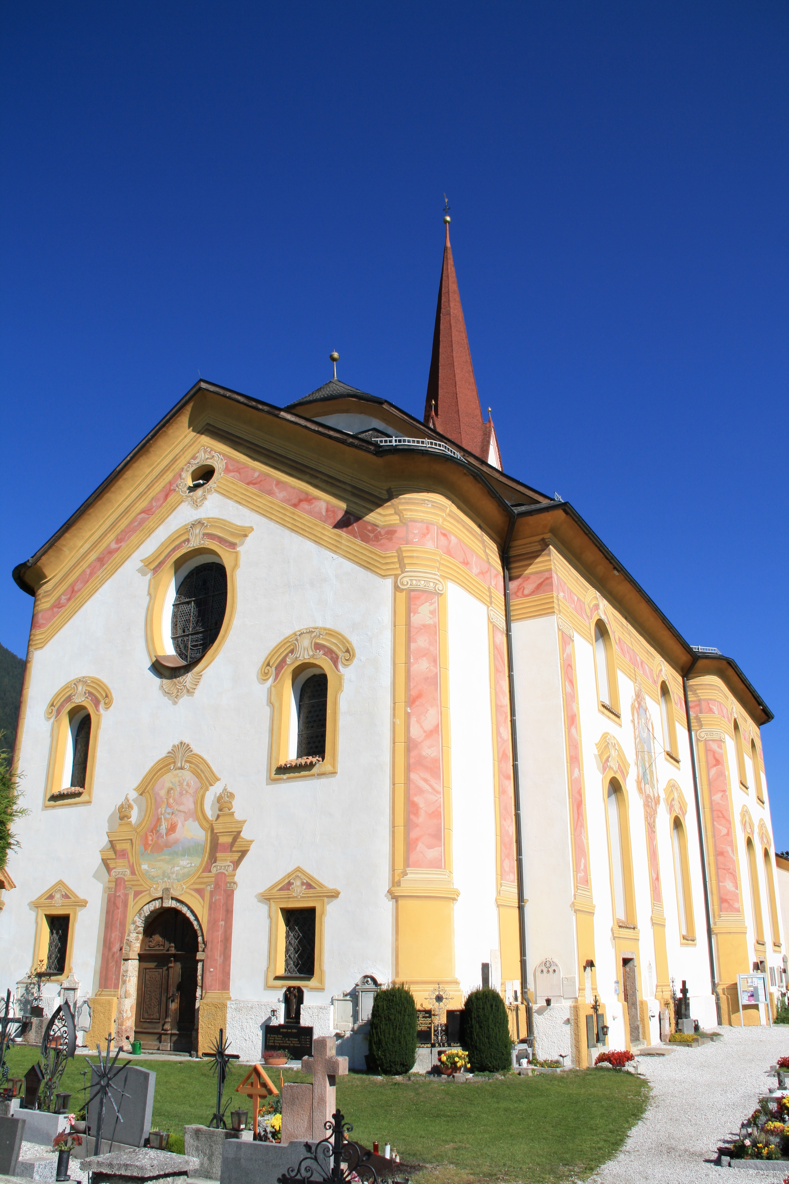 Austria, Tyrol, Telfes, Hl. Pankratius. The church was planned by Franz de Paula Penz in 1754.